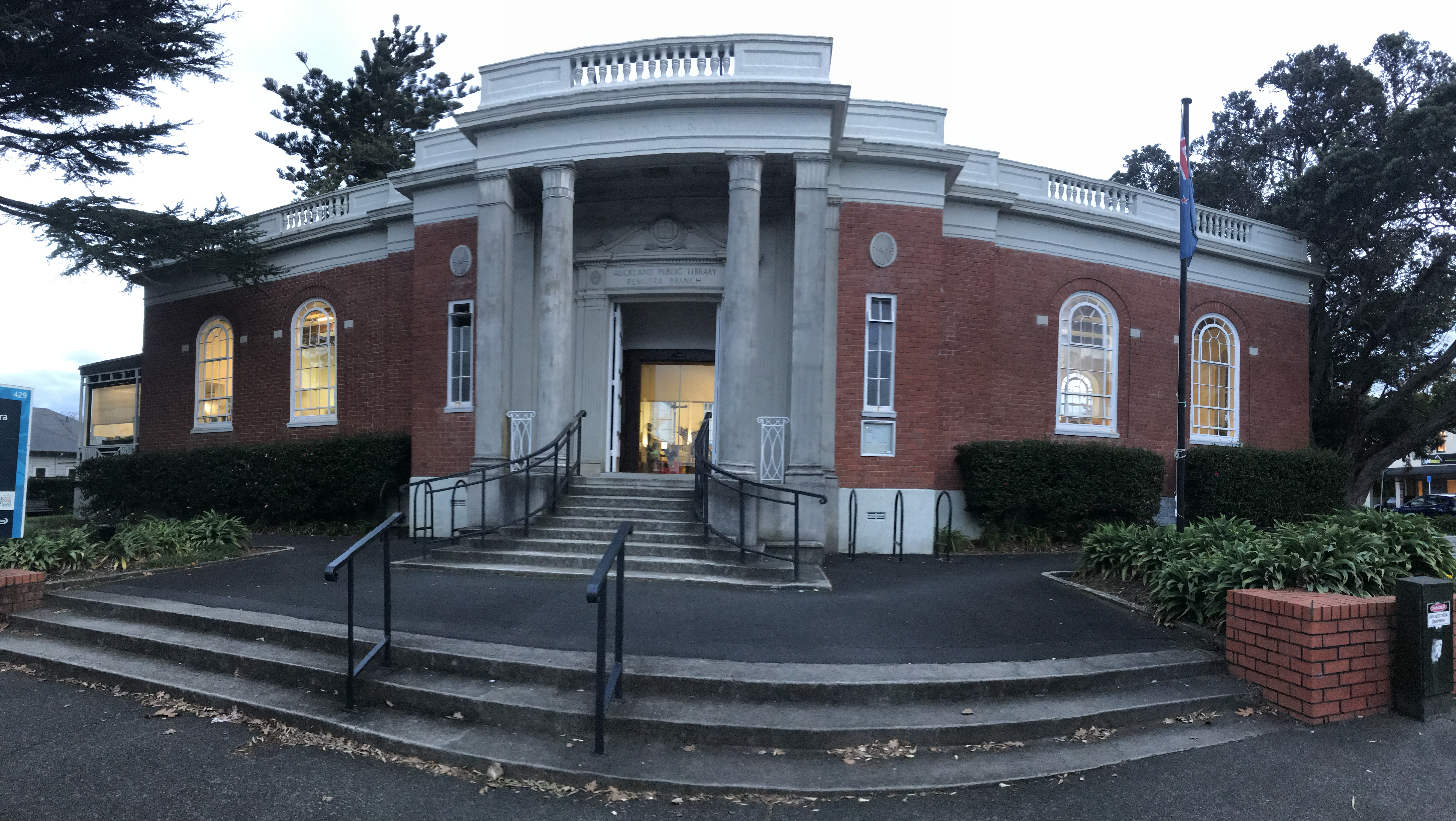 The front entrance of the Remuera Library.